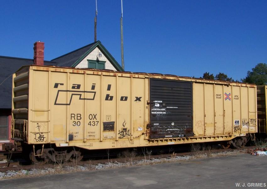 Photo by William J. Grimes in Suffolk at the Seaboard Passenger Station. This image is watermarked to give credit to the photographer!